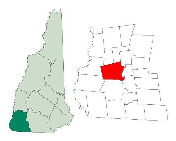 Map of a municipality in Cheshire County, New Hampshire